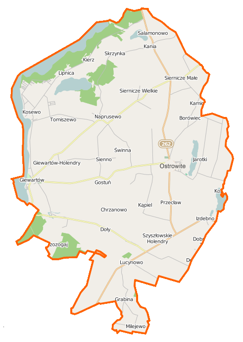 Map of Gmina Ostrowite, PolandThis map of Ostrowite (gmina) was created from OpenStreetMap project data, collected by the community. This map may be incomplete, and may contain errors. Don't rely solely on it for navigation.